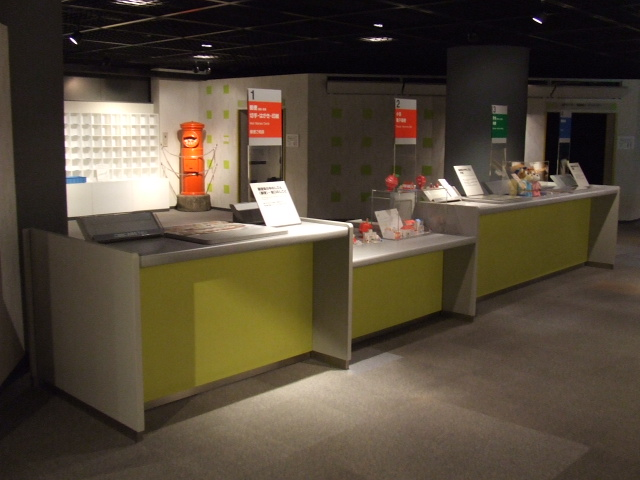 Post Office Teller,Communications Museum,Chiyoda,Tokyo,Japan 28,September 2007